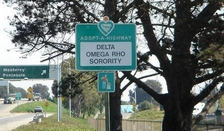 Maintaining an article is very much like Adopting a Highway: you do not own the road, nor you can not stop vehicles from using the road, but you can make sure that the scenery out the window stays presentable for those traveling down the road.